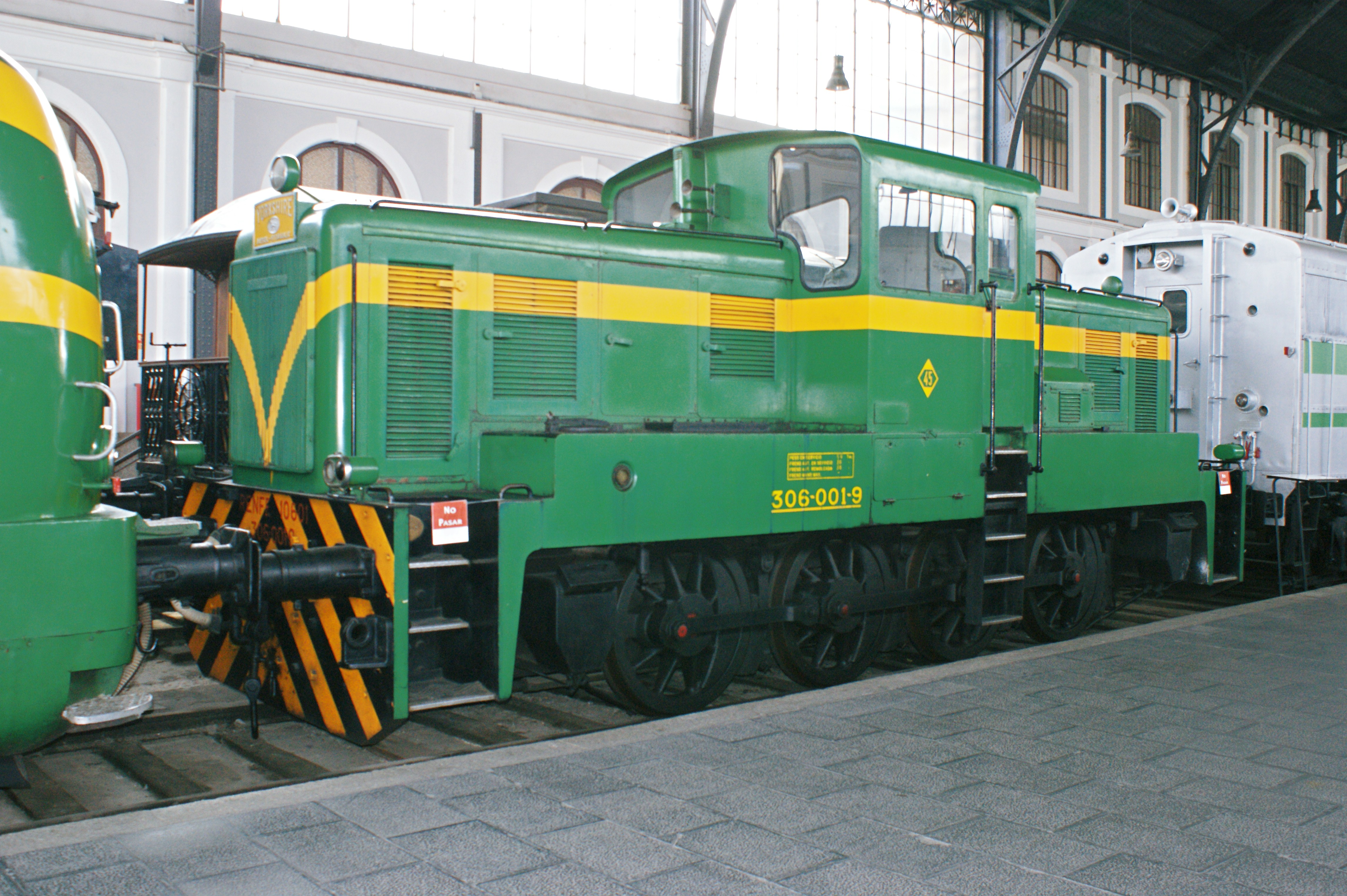 RENFE 600 hp 0-8-0 diesel hydraulic shunter No.45 (UIC No.306-001-9), built by the Yorkshire Engine Co, Sheffield No.2892 of 1963. One of 4 "Taurus" Class built for RENFE. At Madrid Railway Museum 04/10.